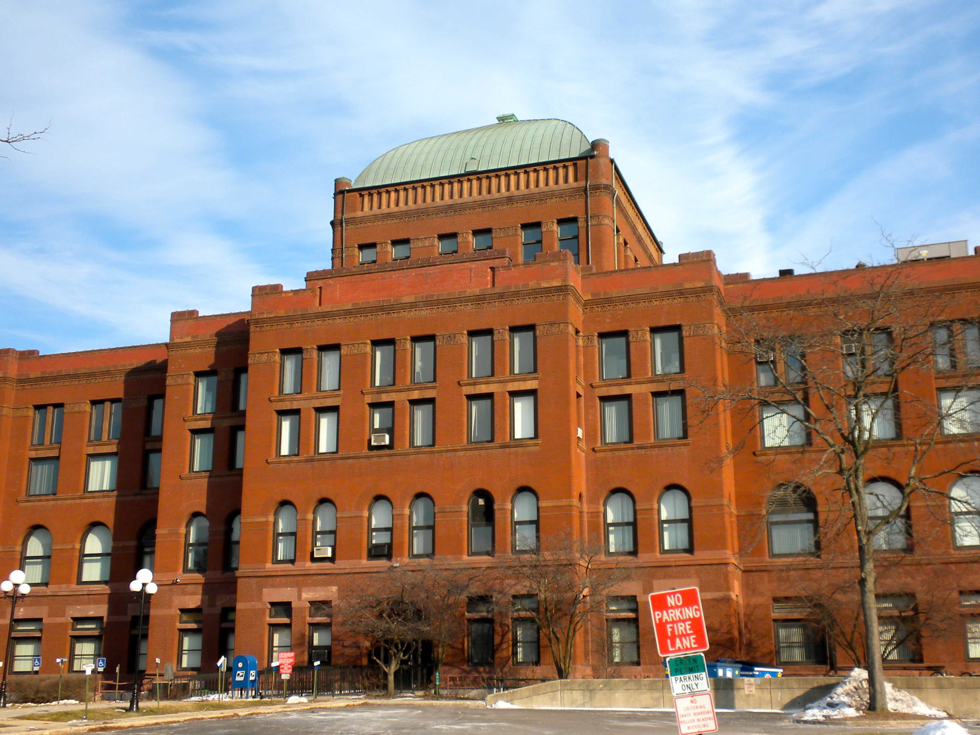 Kane County Courthouse in Geneva, Illinois. Part of the Geneva Central Historic District on the NRHP